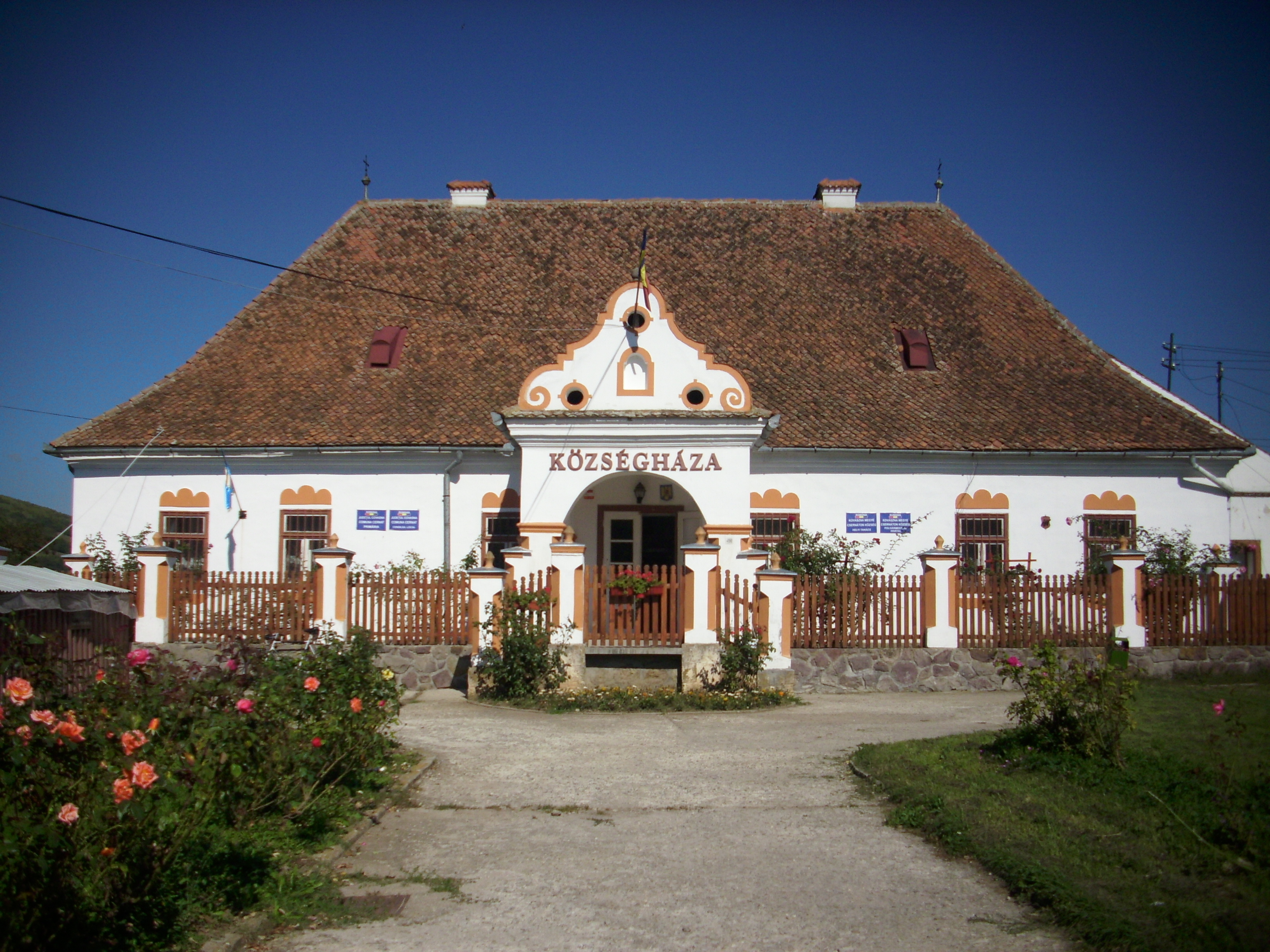 It's a mansion built between the XVIII. century and XIX. century. This picture was taken in 2013 september in cernat 01